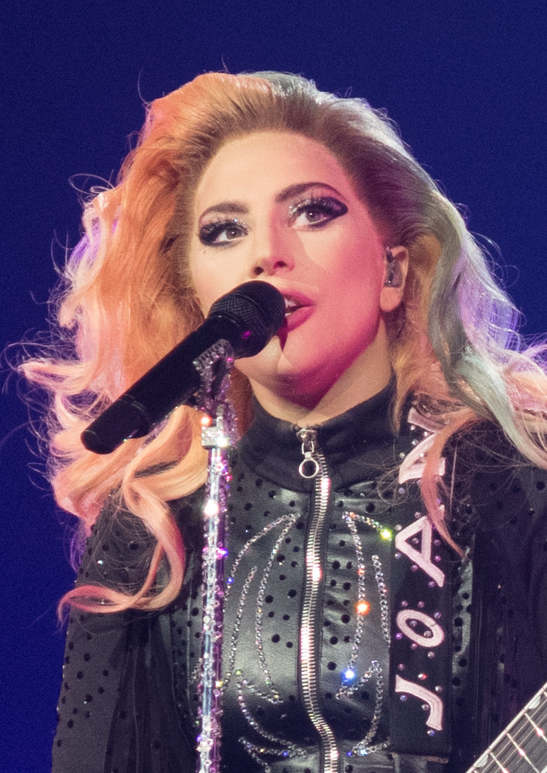 Lady Gaga performing "A-Yo" during her Joanne World Tour in Toronto, 2017